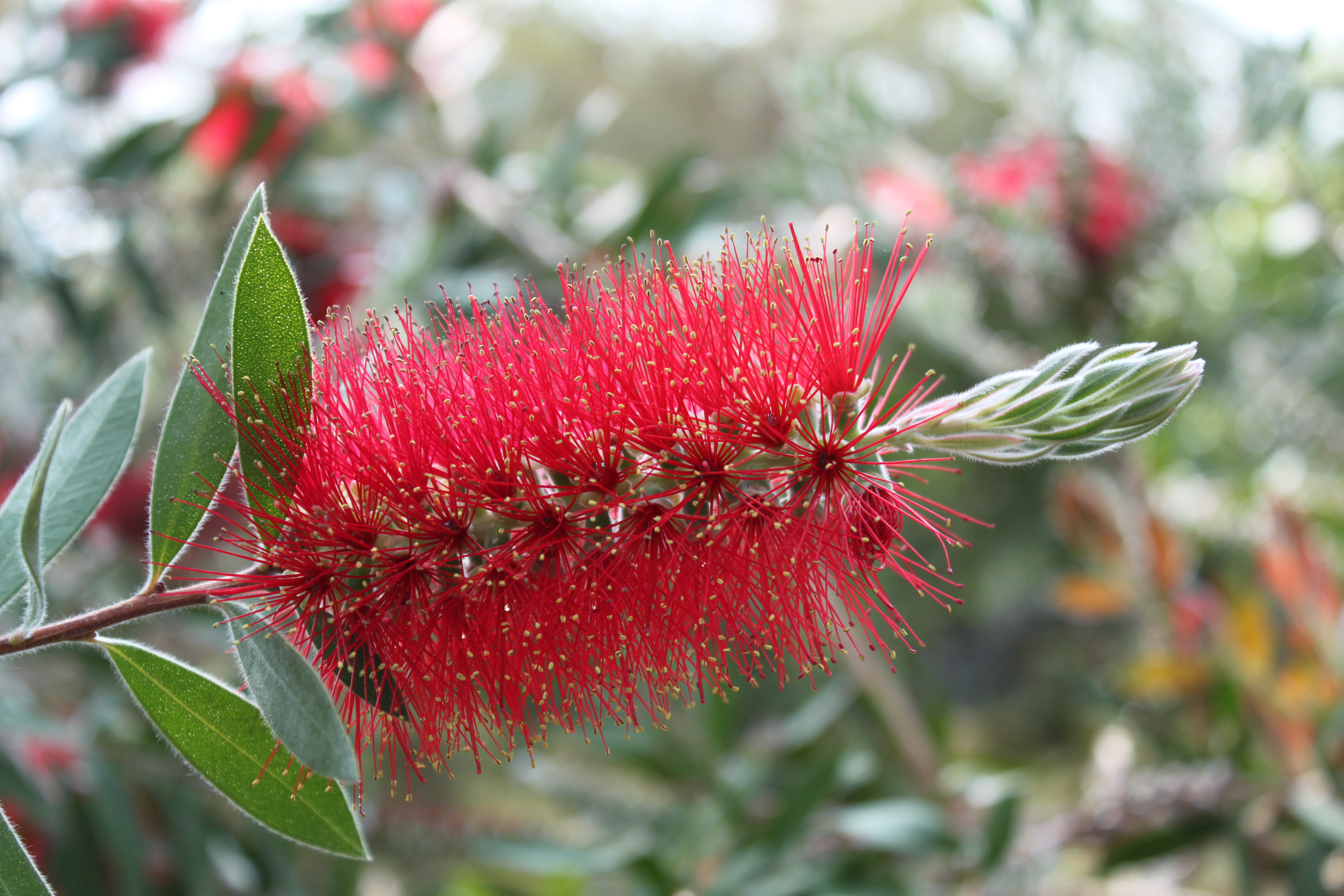 Callistemon macropunctatus var macropunctatus In the glass house at the National Botanic Garden of Wales